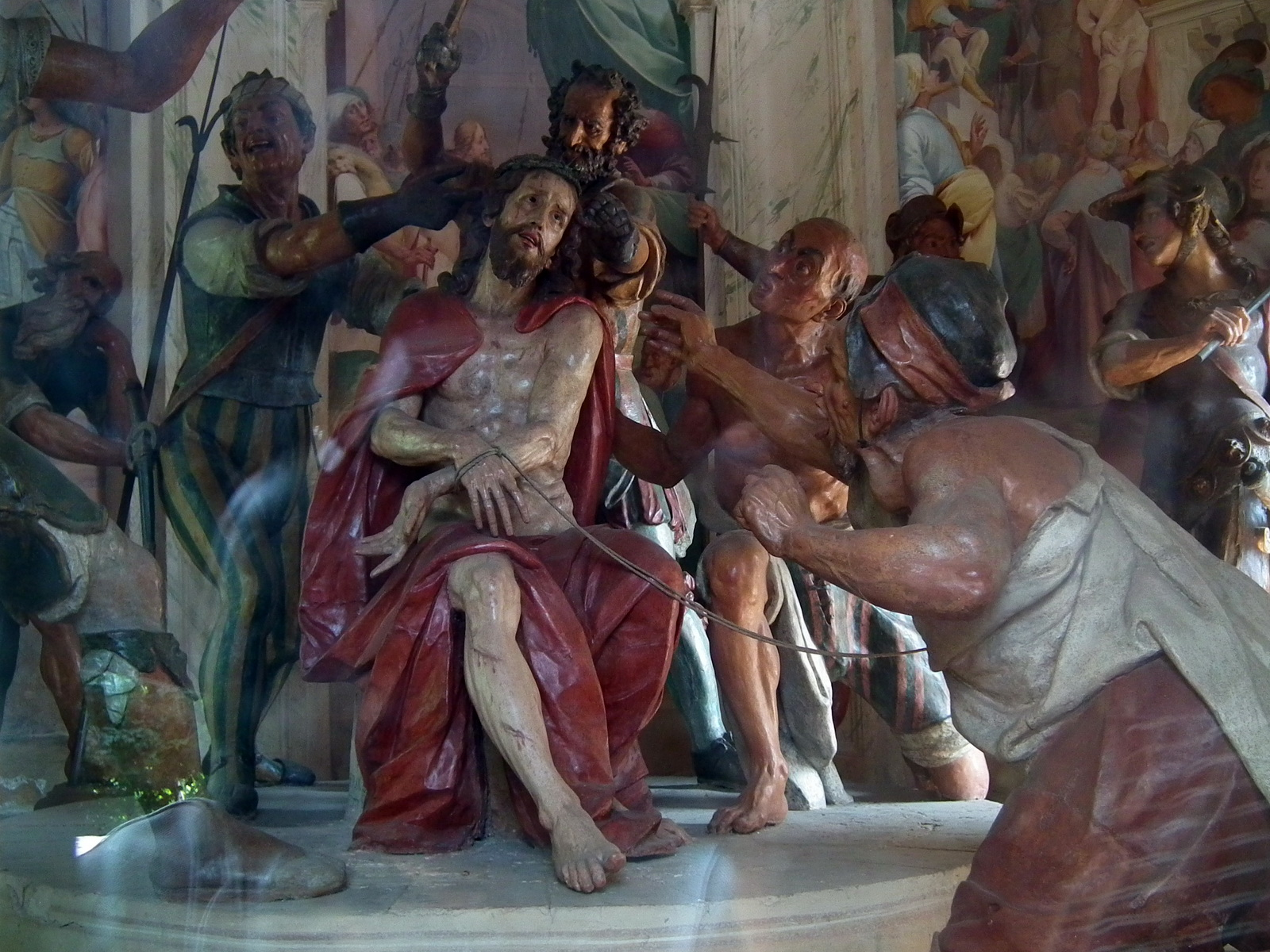 Chapel 8: Crown of Thorns (Coronato_di_spine) Sacro Monte di Varese Native nameSacro Monte di VareseParent institutionSacri Monti of Piedmont and LombardyLocationVarese, Lombardy, ItalyCoordinates45° 51′ 37.3″ N, 8° 47′ 35.6″ E Established1604-1623 (Constructed)Web page control : Q1224490 VIAF: 242334001 UNESCO: 1068-004 GND: 7641777-3 BNF: 11980003j institution QS:P195,Q1224490